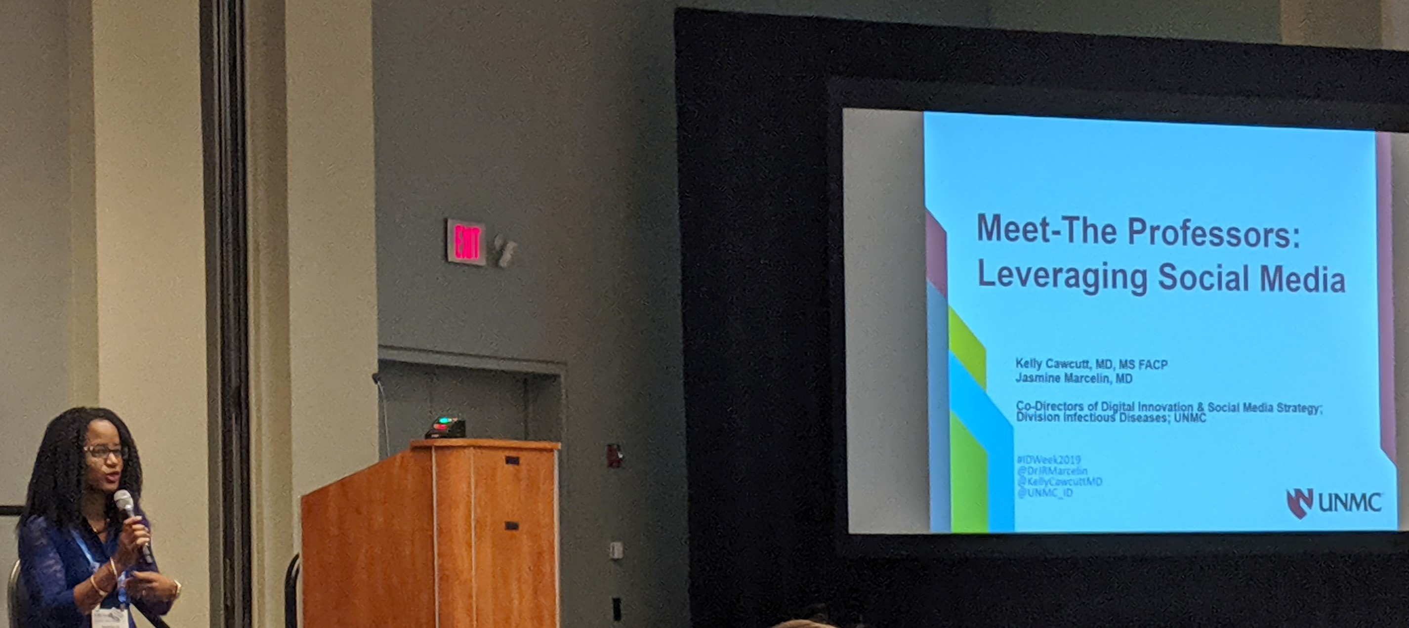 Dr. Marcelin and Dr. Kelly Cawcutt lead a session entitled, "Meet the Professors: Leveraging Social Media" on Oct 2, 2019 at the IDSA 2019 meeting